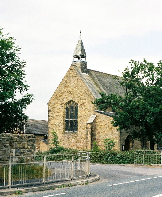 St Leonard's Church, Langho Conveniently situated between school and pub with community hall behind.